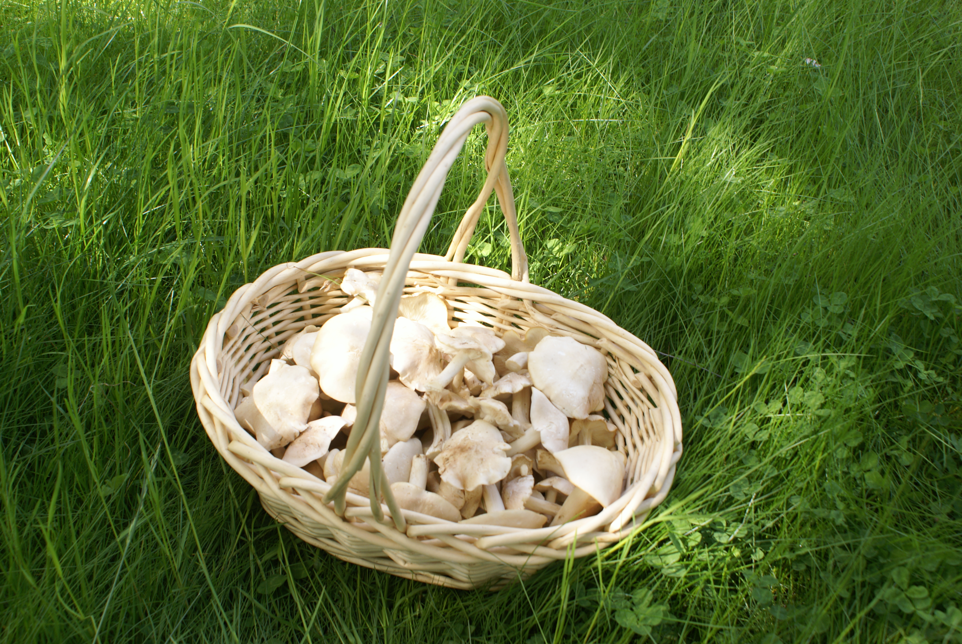 A basket full of newly harvested Calocybe gambosa mushrooms (app. 2 kilos) from just one location